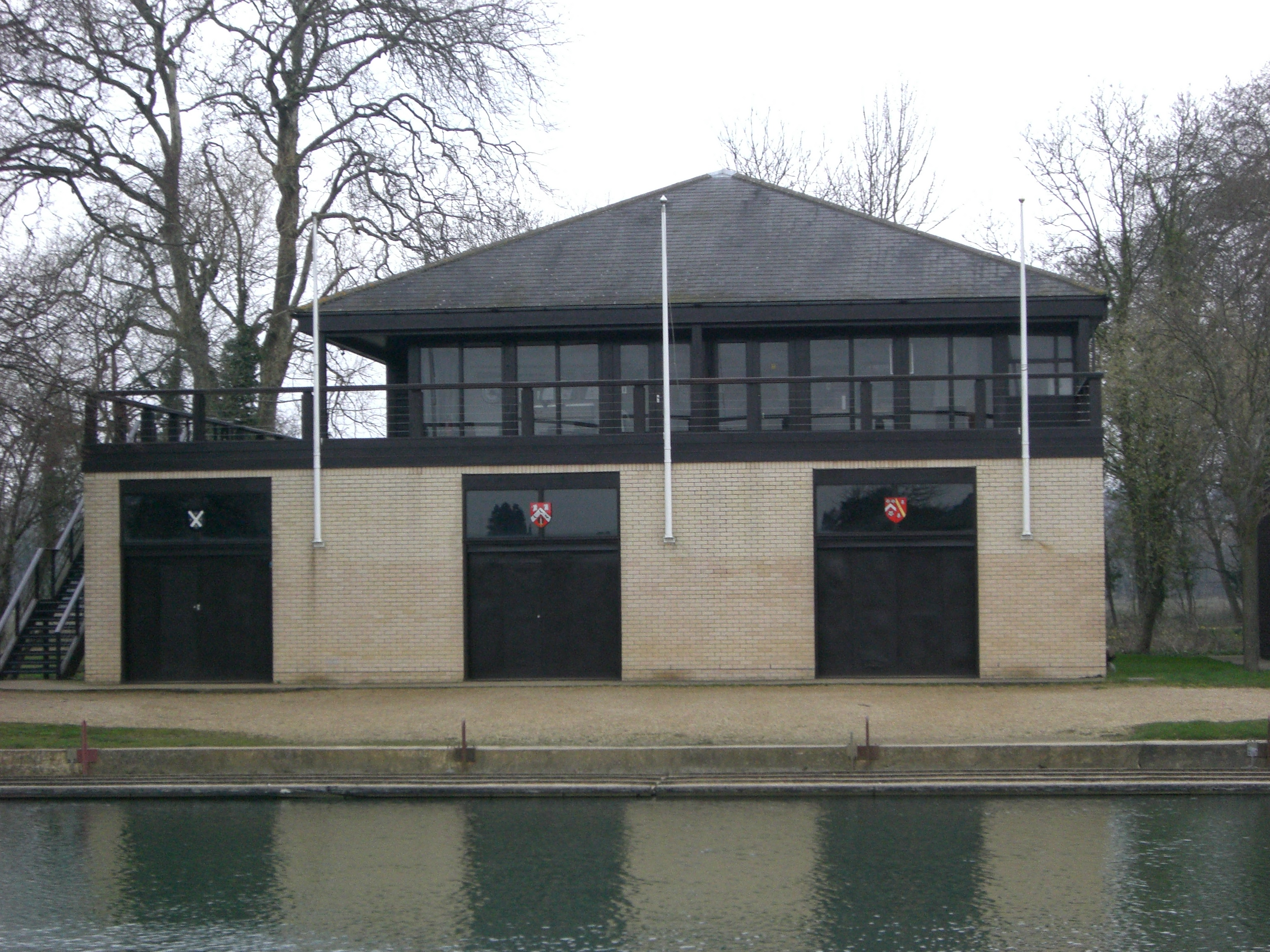 Boathouse on the River Thames, just south of Folly Bridge in Oxford. Used by (from left to right) St Catherine's College, St Anne's College & Wadham College.